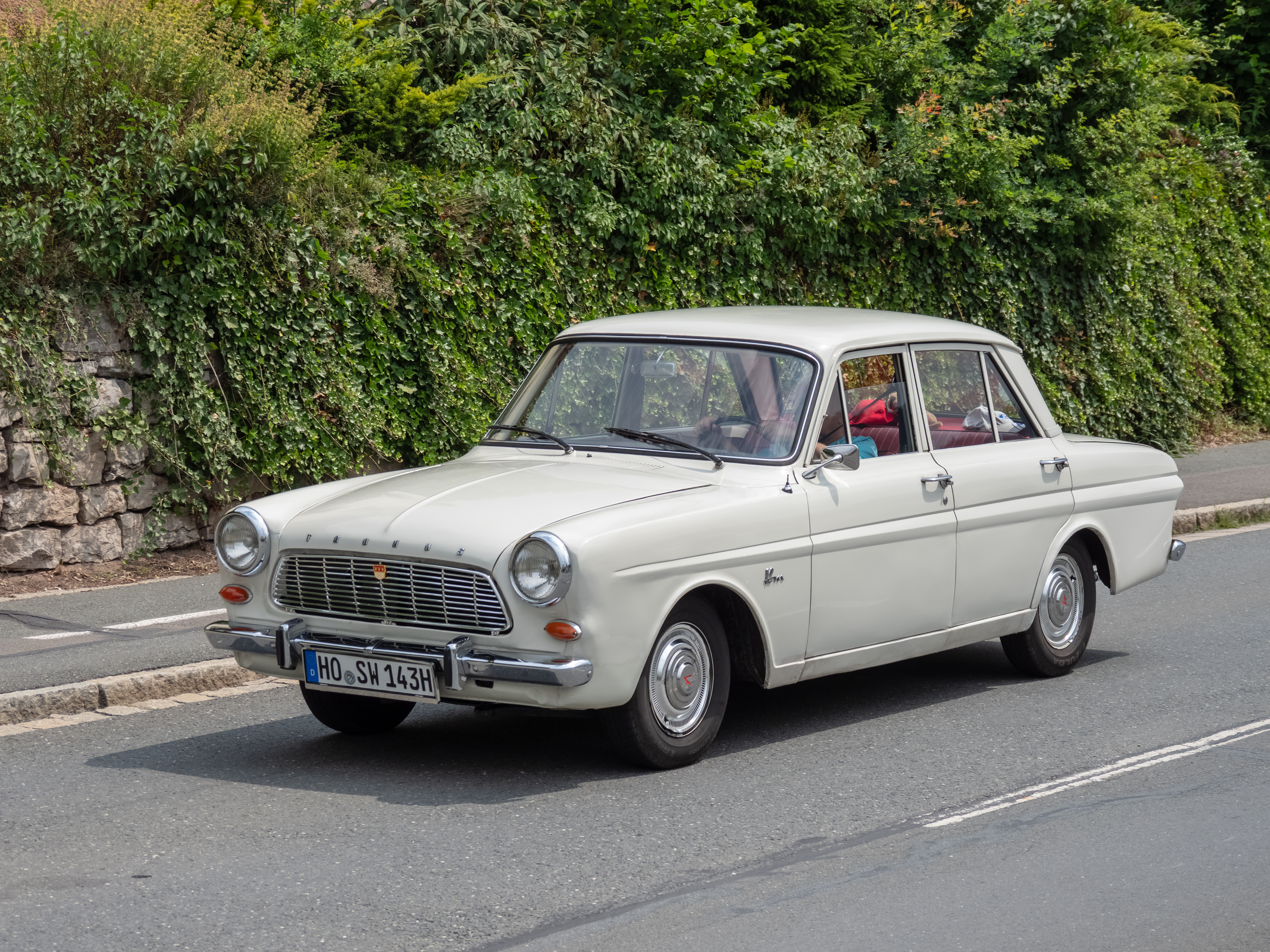 Ford Taunus 12m at the Kulmbach 2018 classic car meeting